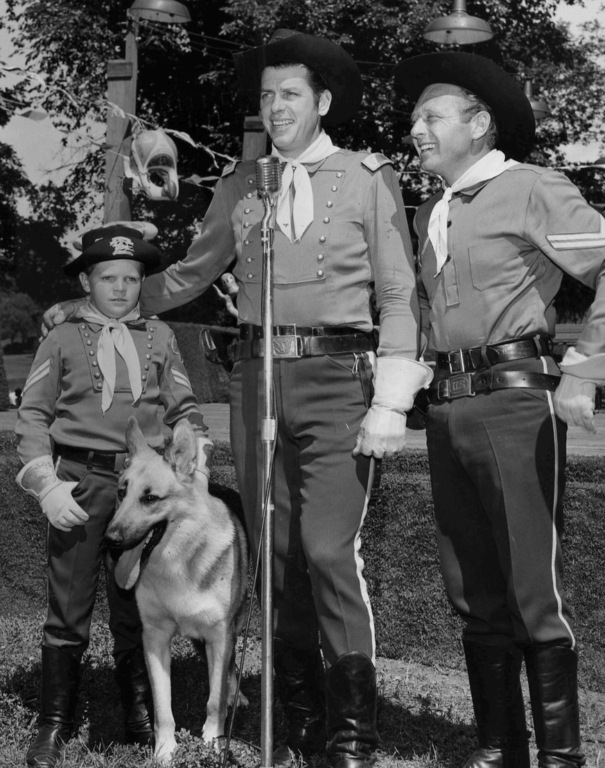 Photo of the main cast from the television program Adventures of Rin Tin Tin. From left: Lee Aaker (Rusty), Rin Tin Tin, James Brown, (Rip Masters) and Joe Sawyer (Biff O'Hara). The photo appears to be from a personal appearance.